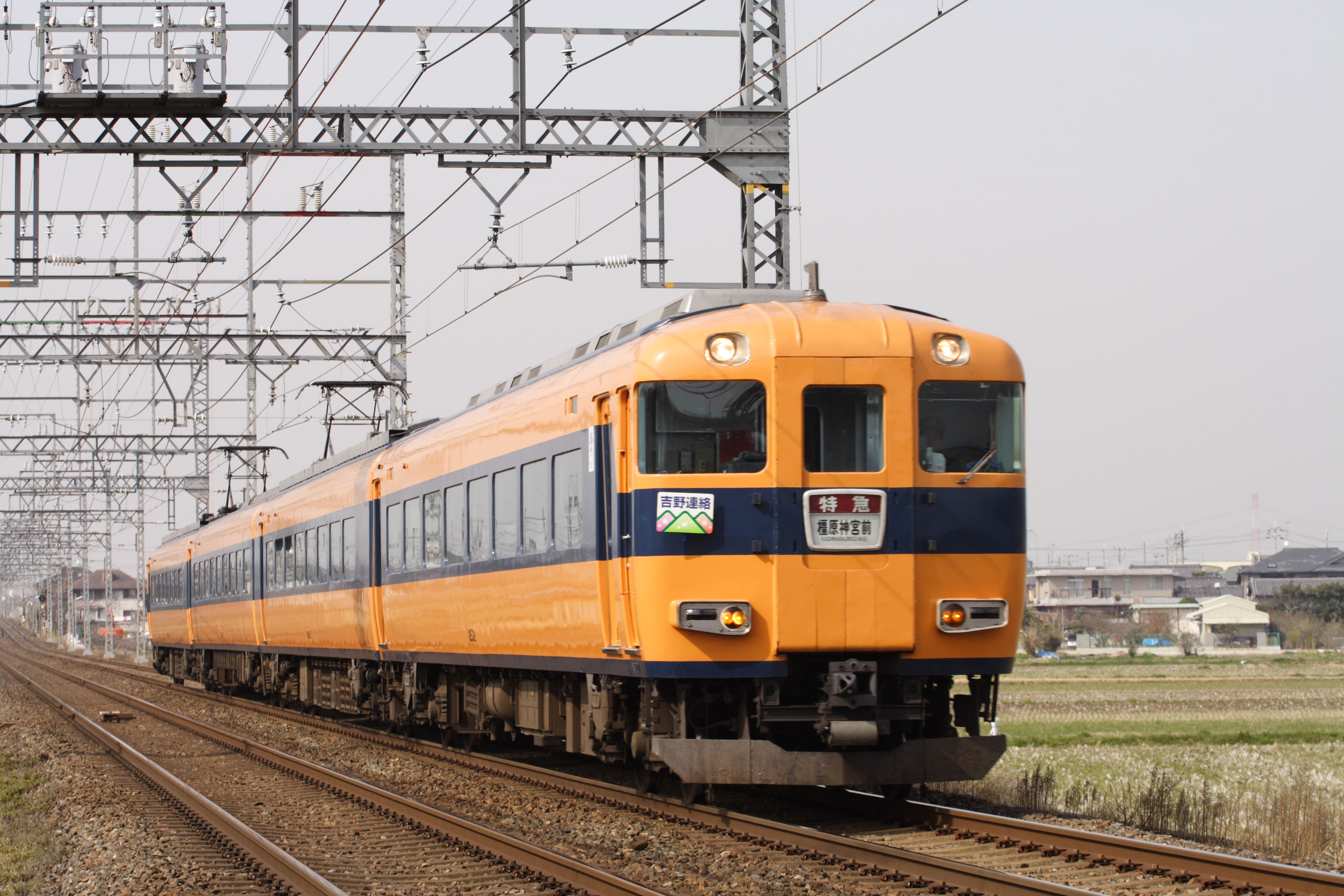 近畿日本鉄道・12600系電車/series 12600 electric car of Kintetsu Corporation